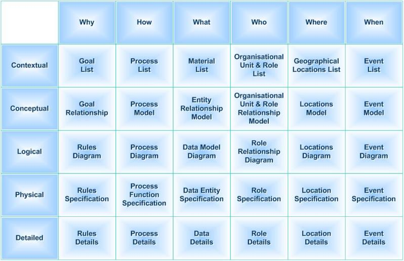 Image of Zachman Framework circa 2009, no icons text only